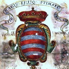 estate achive Dubrovnik city (Croatia)